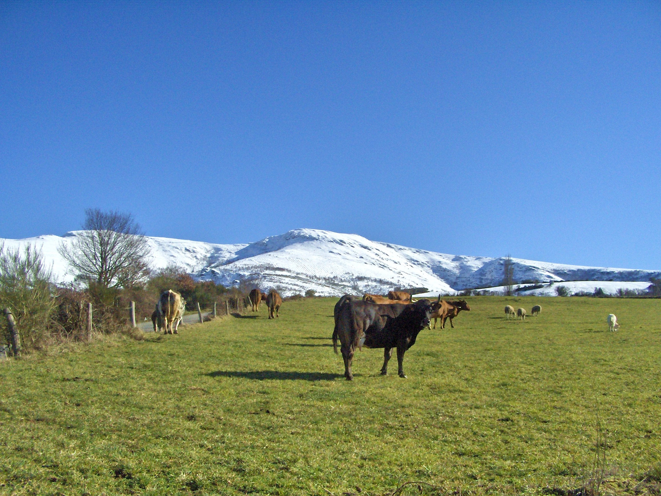 Cows grazing in the Council of Samos (Lugo, Galicia, Spain). The mountain of Oribio with snow